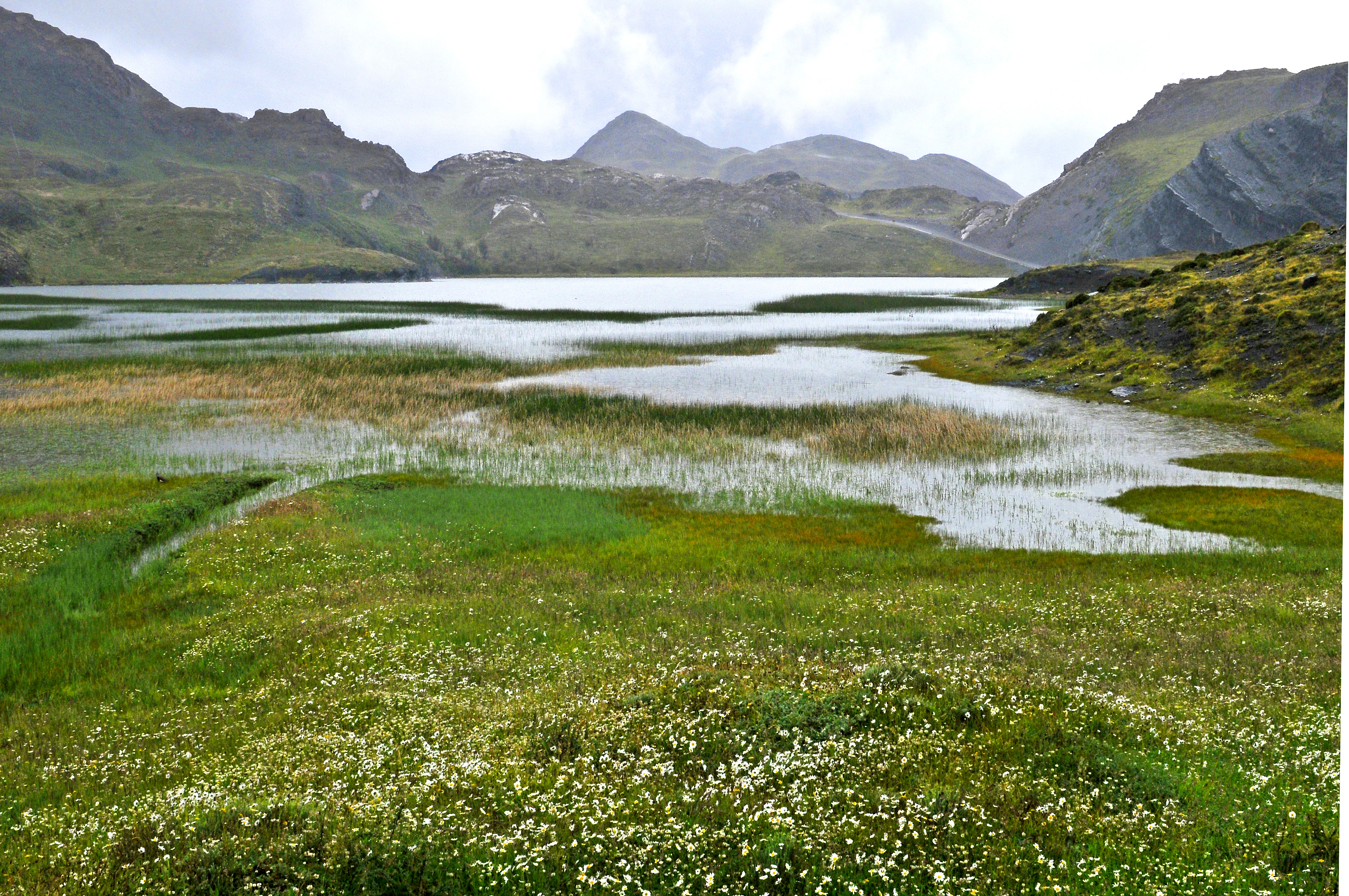 Lagunas Mellizas [Twin Ponds], with water plants. Torres del Paine National Park, Chile